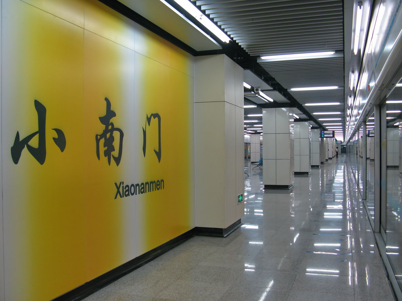 Line 9 Platform of Xiaonanmen Station, Shanghai Metro